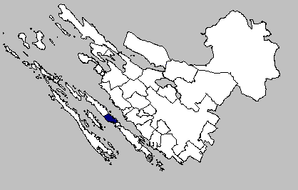 Self-made map of the Kali municipality within the Zadar County.